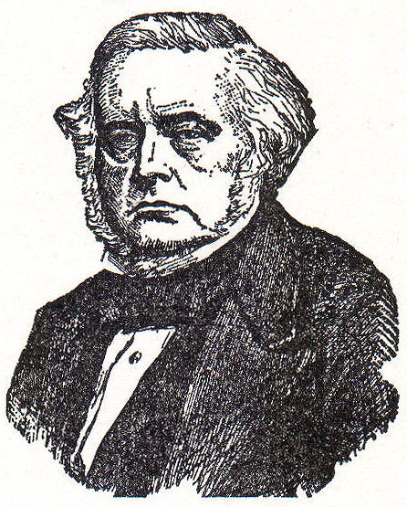 portrait of John Bright portrait from The New Student's Reference Work, 5 volumes, Chicago, 1914.